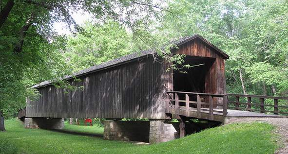 Locust Creek Covered Bridge in Linn County, Missouri. Listed on the National Register of Historic Places since 1970, the bridge was constructed in 1868. Photo courtesy of Milanite via Flickr.